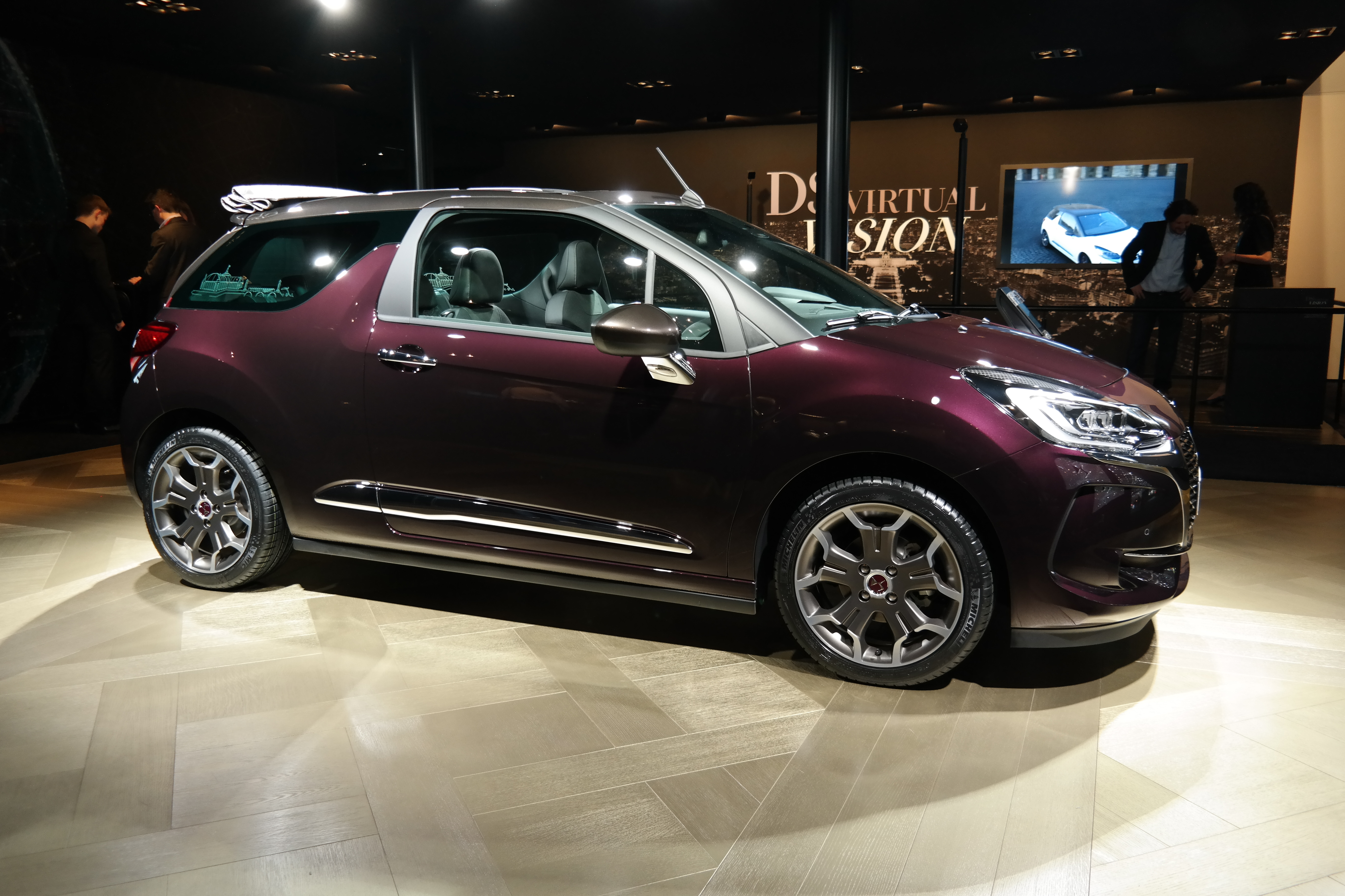 Geneva Motor Show 2016 (photo taken on the first press day)